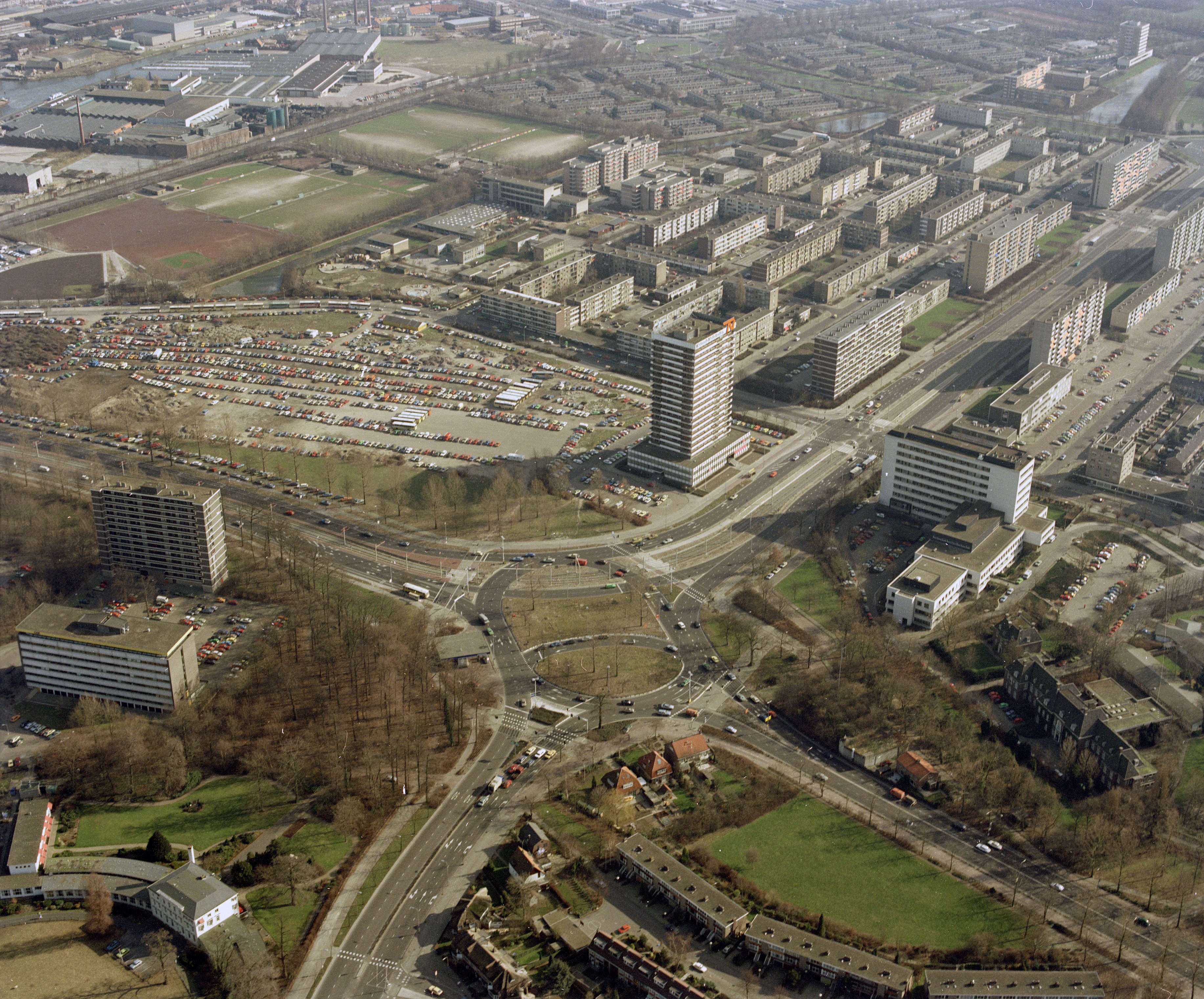 Aerial photograph of the 24 Oktoberplein, Utrecht, 1983